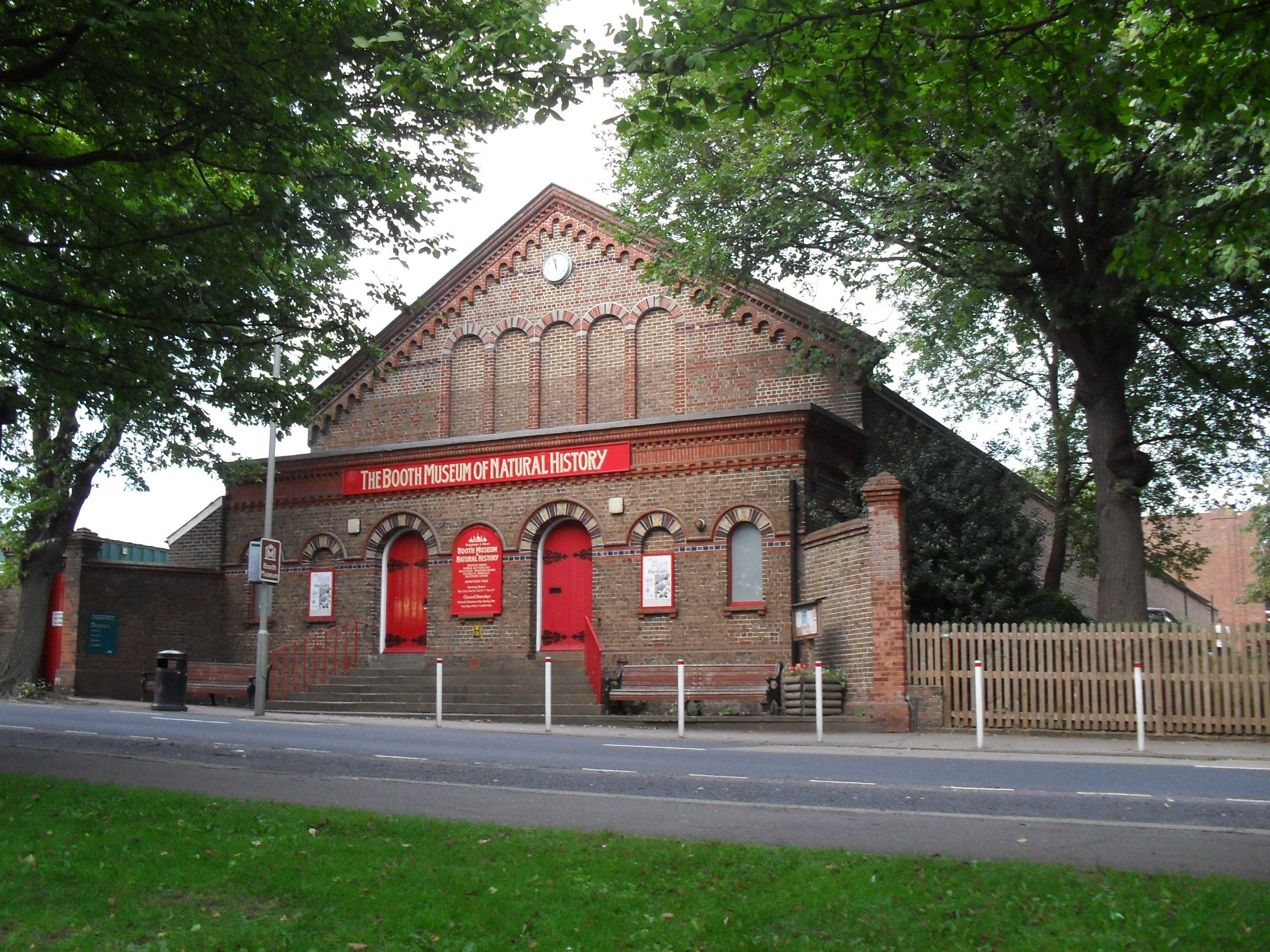 Booth Museum of Natural History, 194 Dyke Road, Brighton, City of Brighton and Hove, England. Opened in 1874 in the grounds of founder Thomas Booth's house, with 308 exhibits. His widow gave the museum to the town in 1890, and it now has a 500,000-strong collection of national importance. The Romanesque Revival building is listed at Grade II by English Heritage (IoE Code 480614)